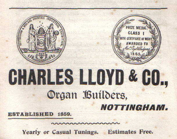 Charles Lloyd & Co, Organ Builders, Nottingham, from the Illustrated Guide to the Church Congress 1897